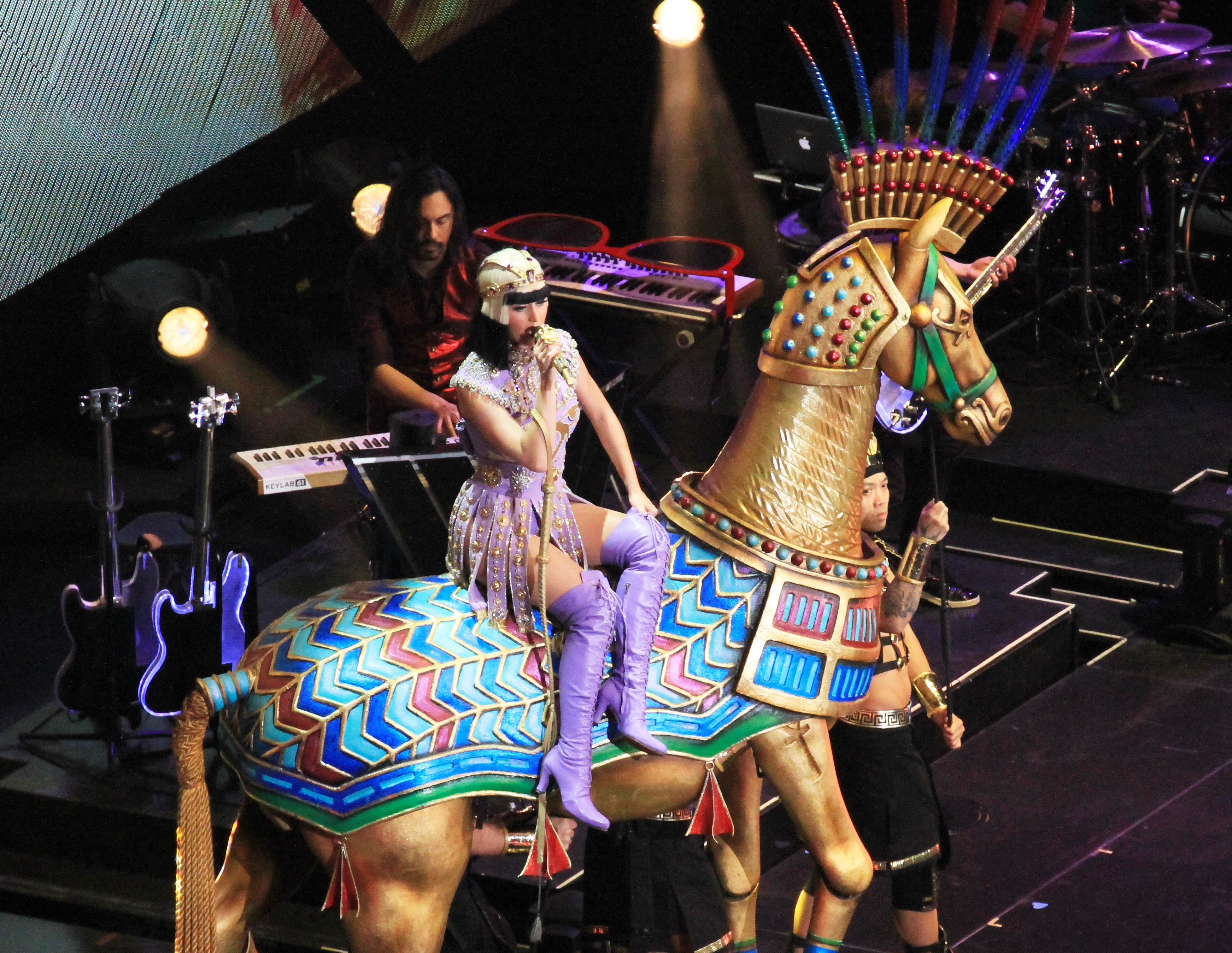 Katy Perry performing "Dark Horse" at Prudential Center in Newark in July 12, 2014.